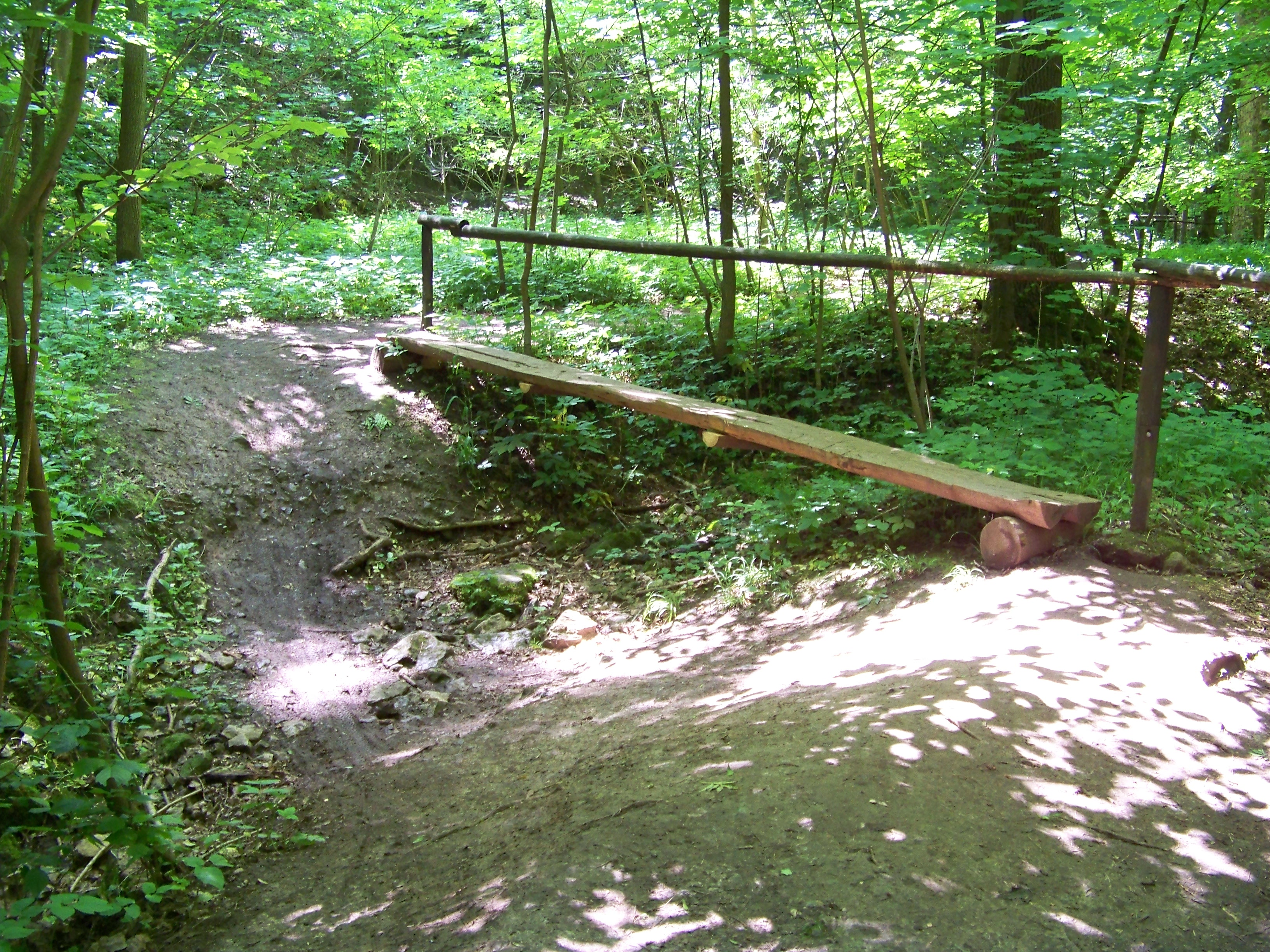 Karlštejn, Beroun District, Central Bohemian Region, the Czech Republic. The Bohemian Carst. Bubovice Creek.